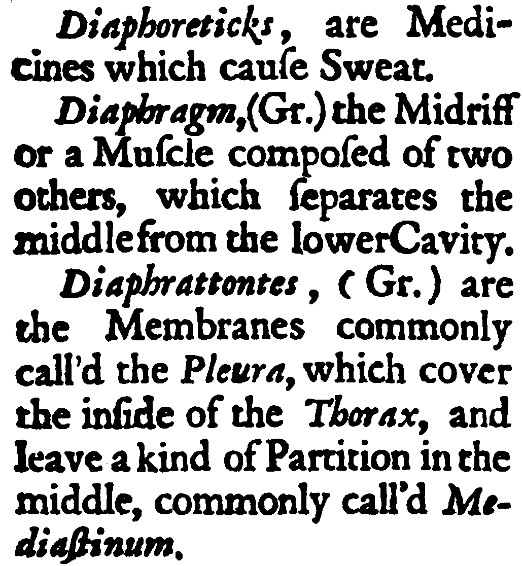 Scan of the definition of diaphragm, and words before and after, in Thomas Blount's 1707 Glossographia Anglicana Nova